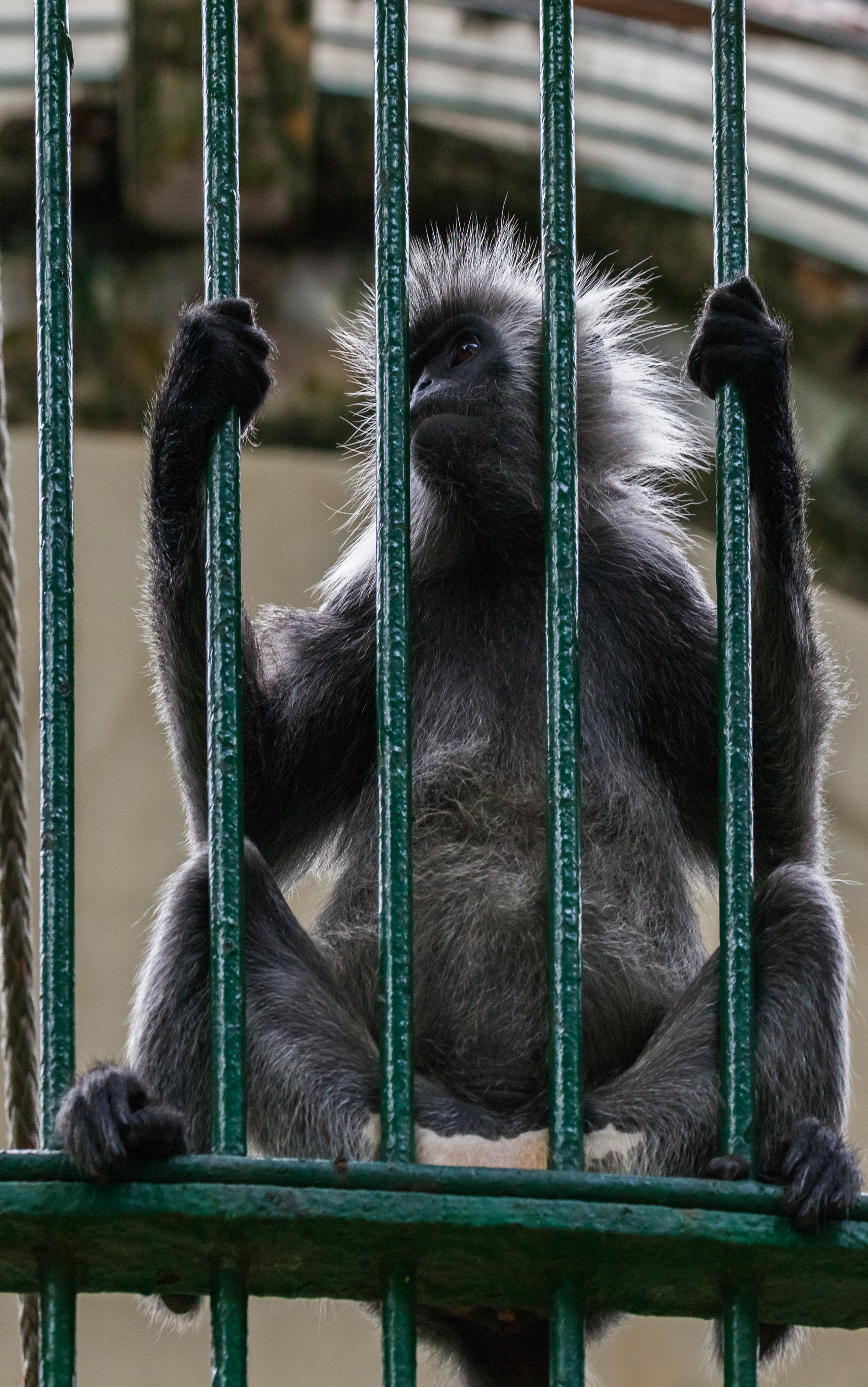 Silvery langur (Trachypithecus cristatus), Ho Chi Minh City Zoo, Vietnam